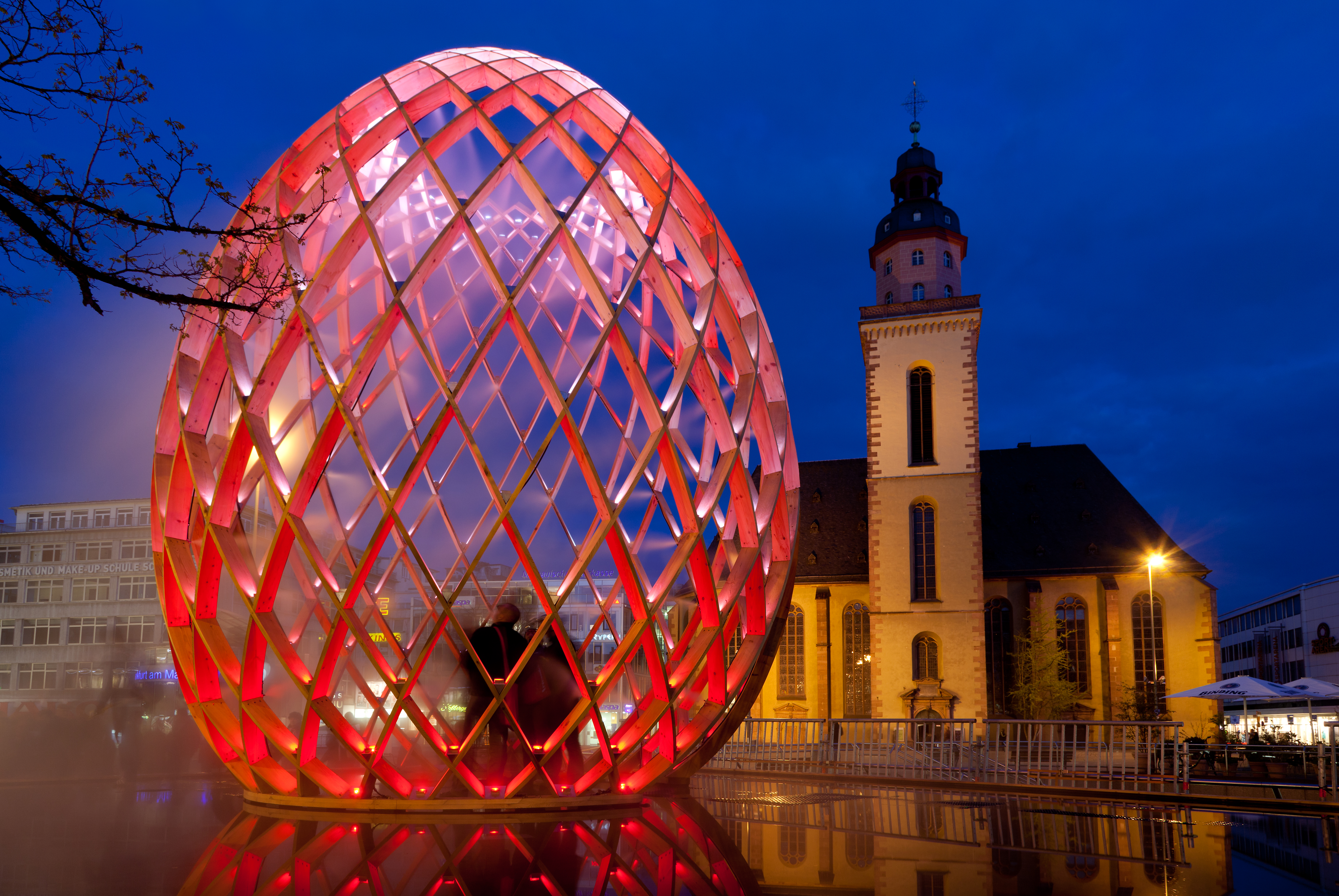 „OVO“ at Luminale 2012 in Frankfurt, Germany